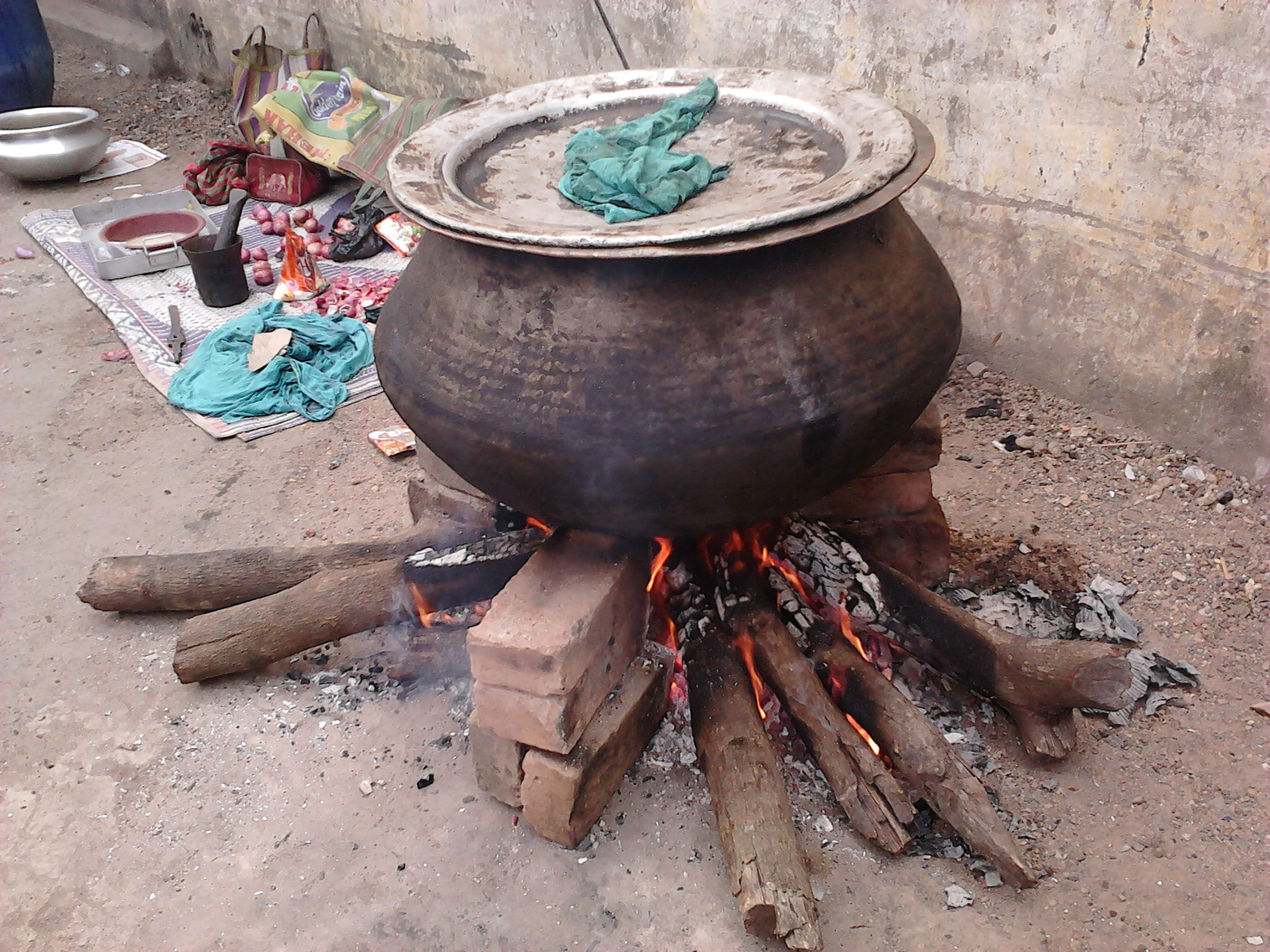 Pakki Biryani cooking on the Bangal Para 2nd bye lane, Howrah,India, for a mass feeding.